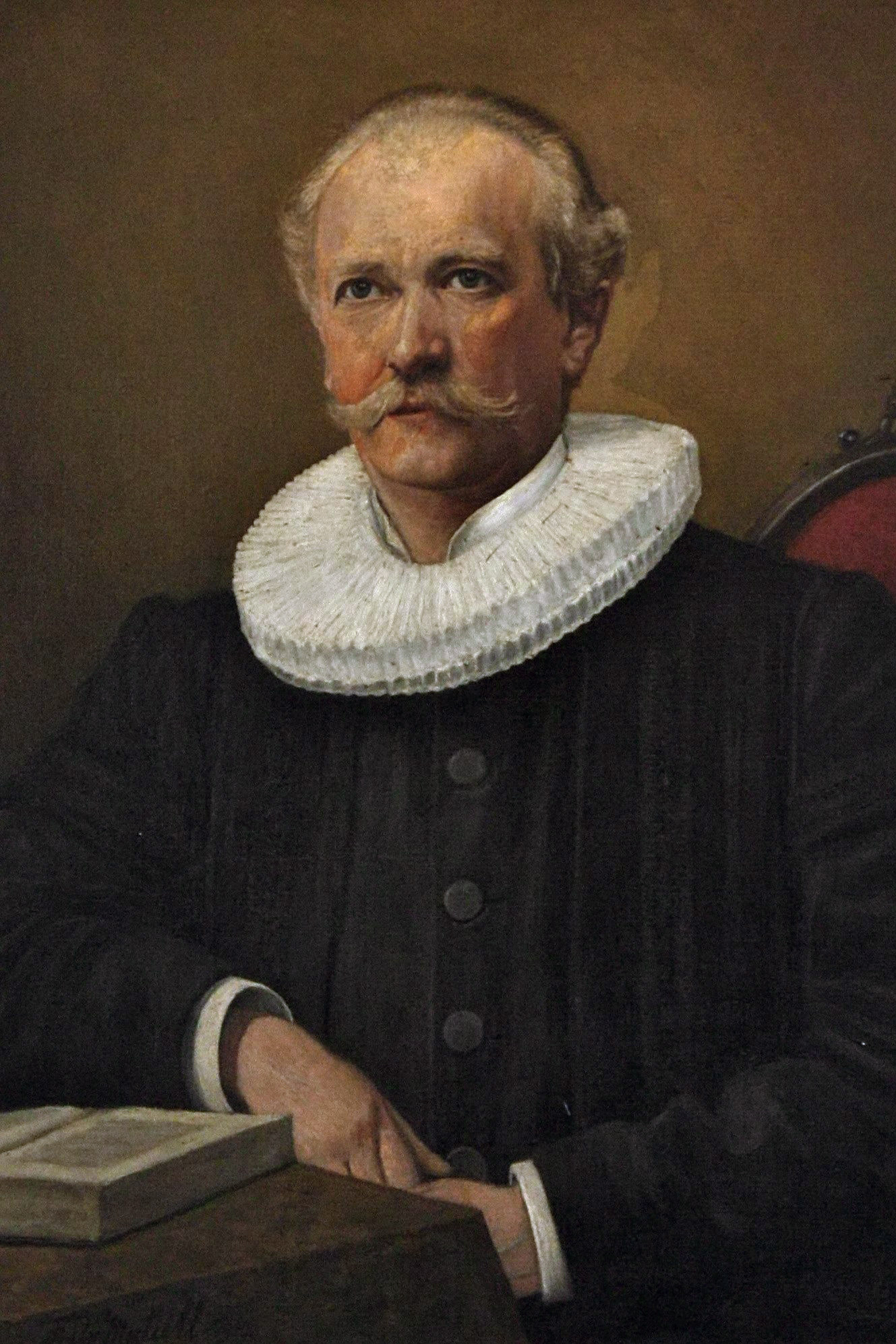 Clemens Schultz, lutheran priest in Hamburg-St.Pauli, 1862 bis 1914. Clipping of a painting in the St.-Pauli-Church